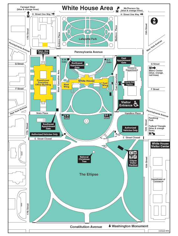 White House Area Map with Blair House location (the yellow square on the top left).